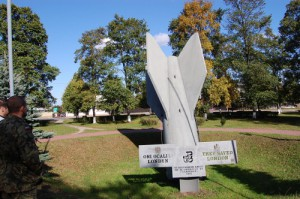 V2 Memorial in Sarnaki, Poland